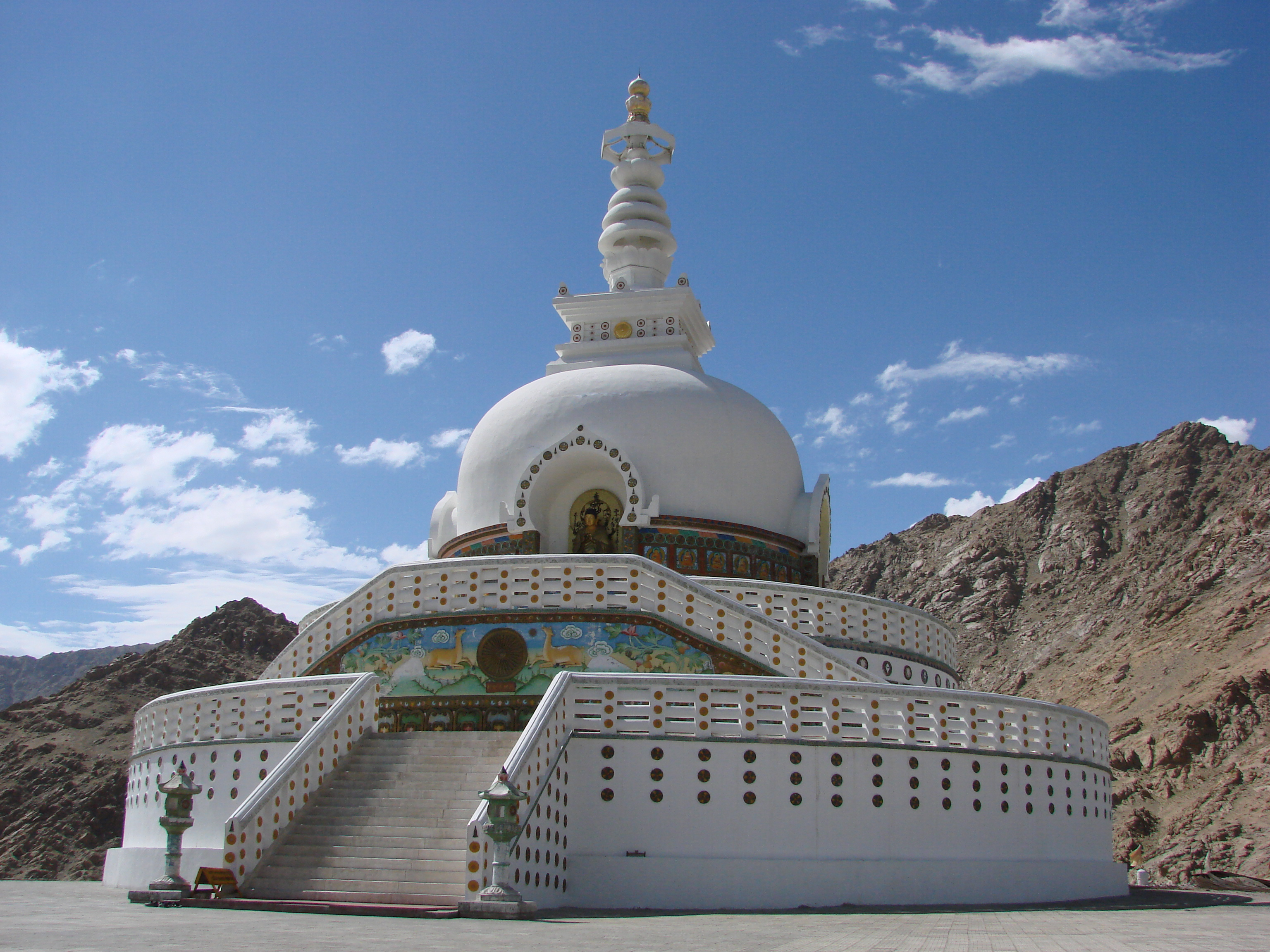 Shanti Stupa at Leh. This was built by the Japanese in the early 80s. It stands out, since everything else in Leh is old and dusty.